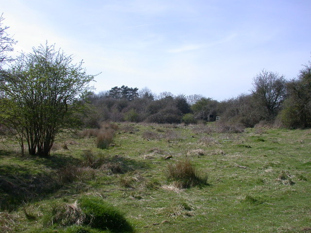 Shepreth L-Moor